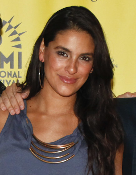 The cast & crew of Cinco De Mayo: The Battle at MIFF 2013: World Premiere at Regal South Beach Cinemas on March 7, 2013. From left: Producer Paco Gallastegui, actor JC Montes Roldan, actress Liz Gallardo, director Rafa Lara, actor Christian Vázquez and Antonio Merlano